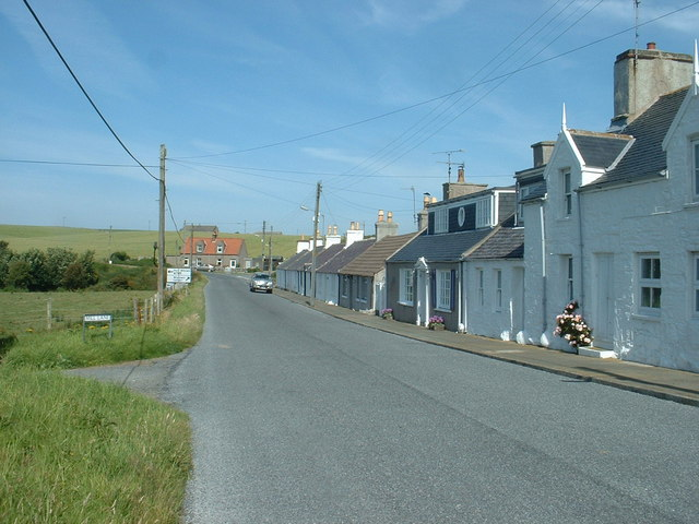 The main street, Monreith. Actually - the only street in Monreith. It is the A747 which runs from Glenluce, at the head of Luce Bay, to Whithorn at the end of the Machars peninsula.